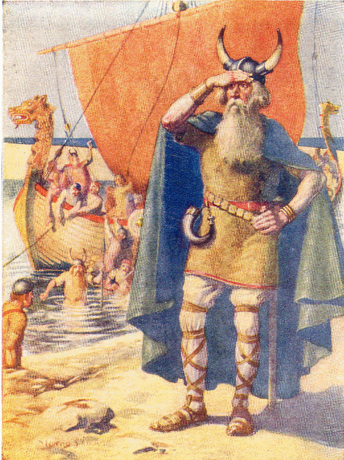 Leif Ericson on the shore of newly discovered Vinland (New Foulndland).